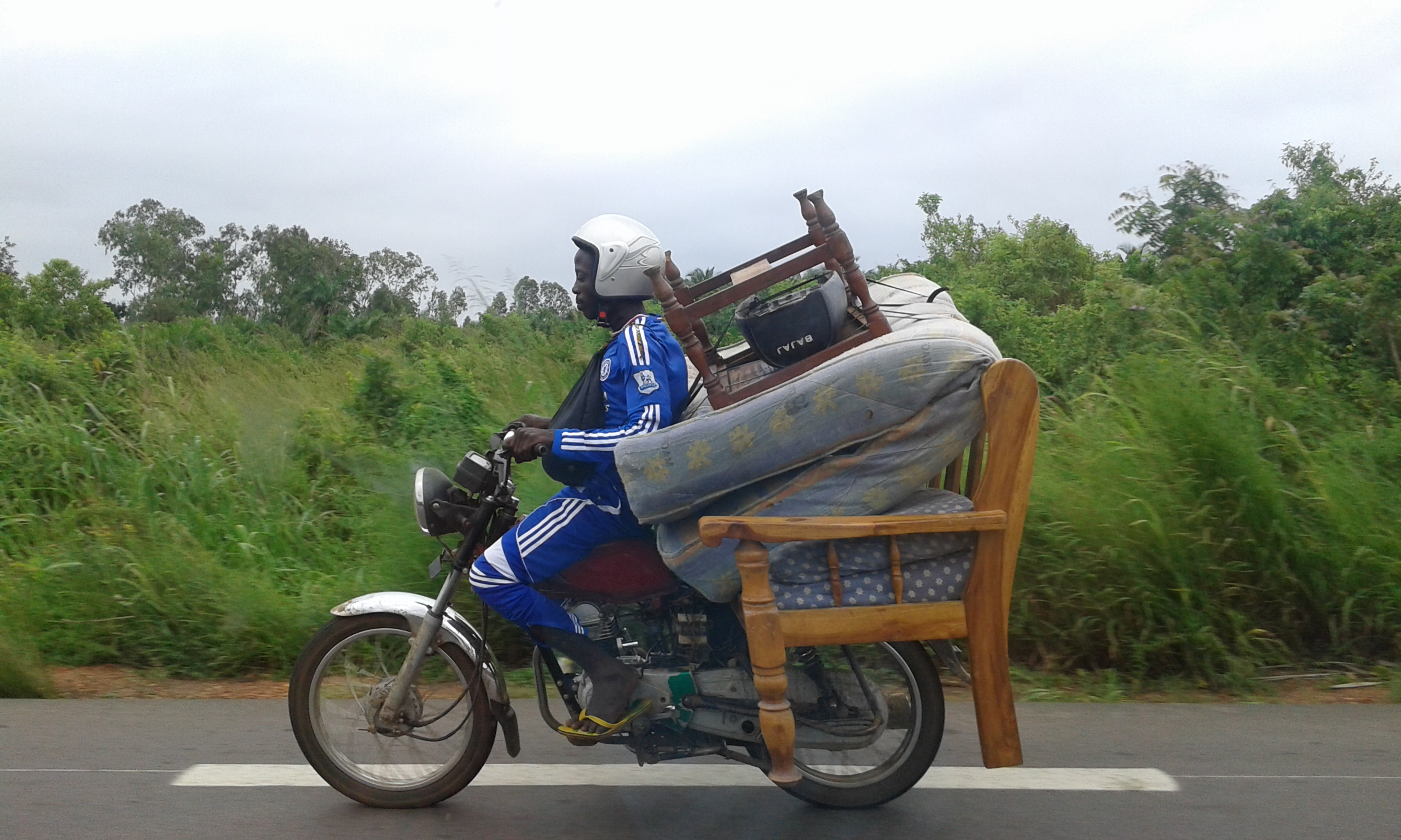 This is an image of "African people at work" from Togo